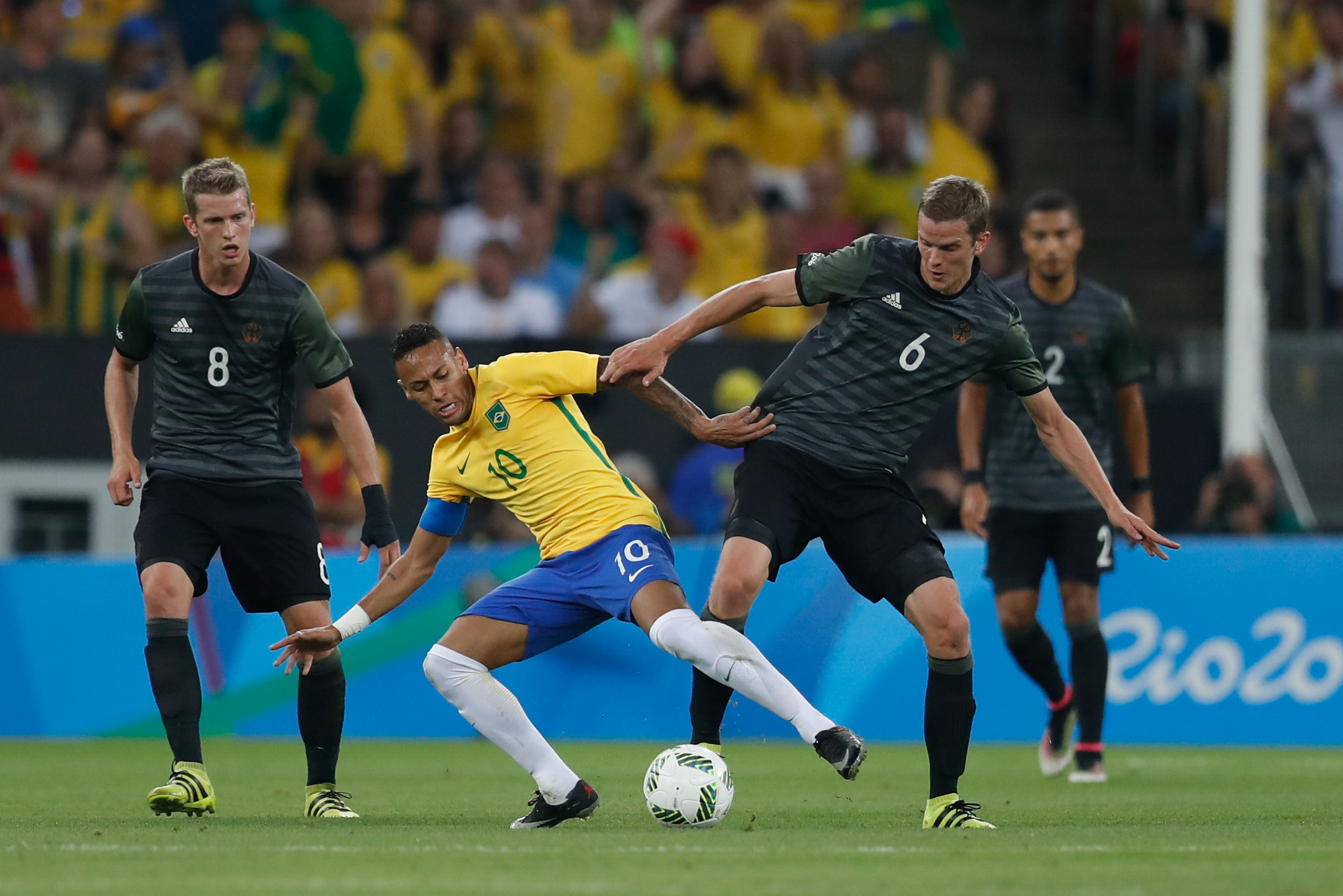 Rio de Janeiro - Brasil e Alemanha disputam a medalha de ouro no futebol masculino (Fernando Frazão/Agência Brasil).